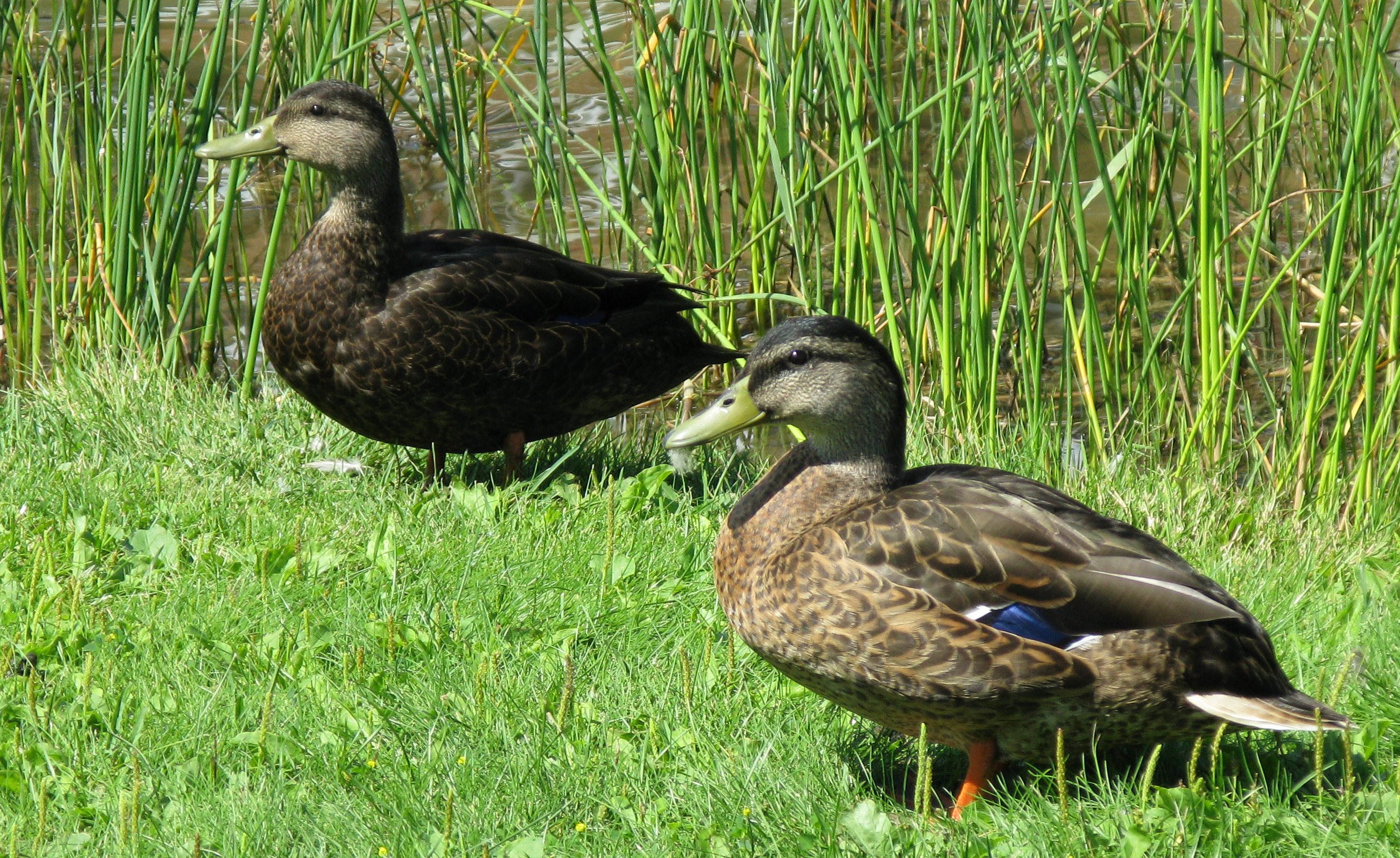 An American Black Duck (Anas rubripes top left) and a male Mallard (Anas platyrhynchos bottom right in eclipse plumage).